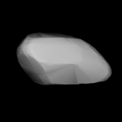 3D convex shape model of 9971 Ishihara, computed using light curve inversion techniques. J. Hanuš, J. Ďurech, M. Brož, B. D. Warner (June 2011). "A study of asteroid pole-latitude distribution based on an extended set of shape models derived by the lightcurve inversion method". Astronomy and Astrophysics 530: A134. ISSN 0004-6361. arXiv